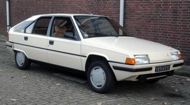 1985 Citroën BX 19 GT, the first model year for this sporty 105 PS version. Note original "GT" sticker on bonnet.